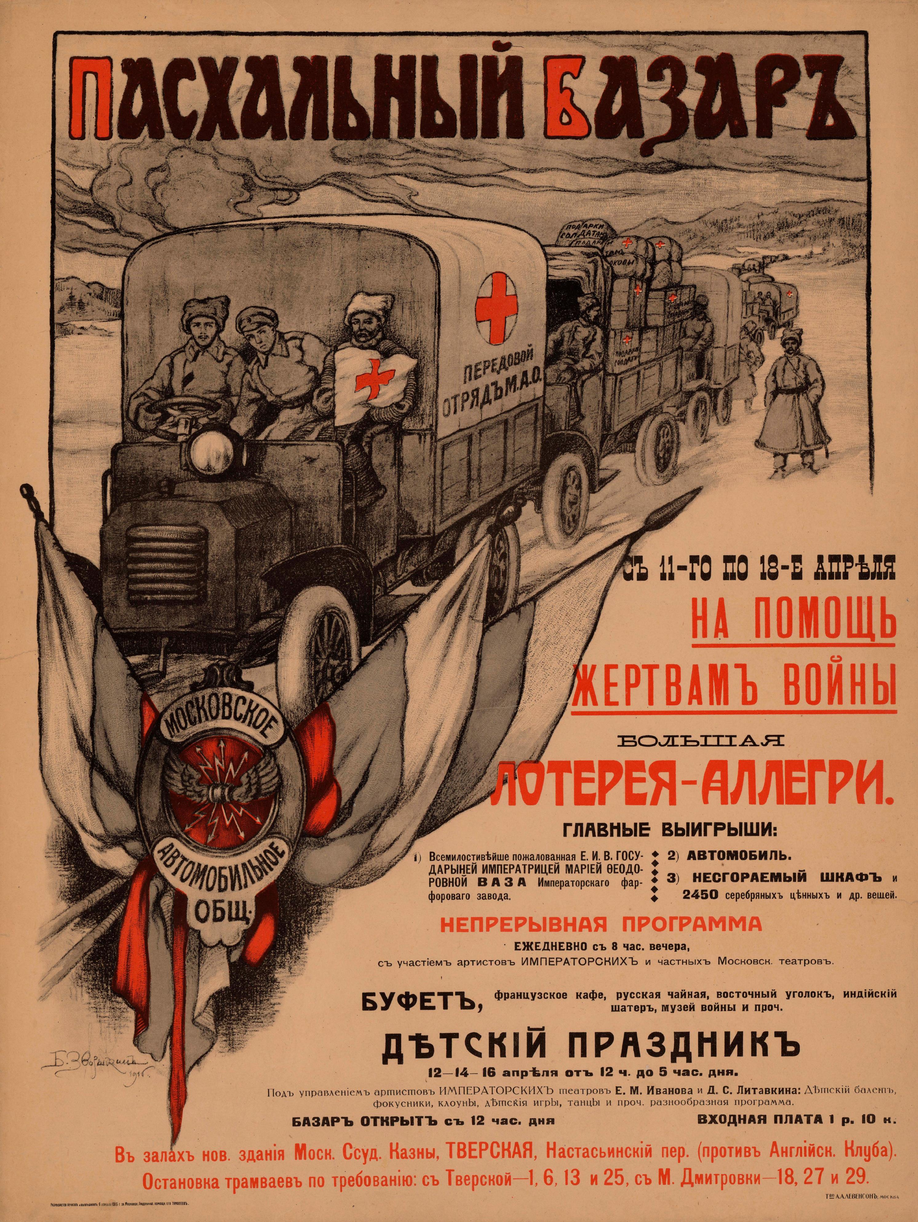 poster